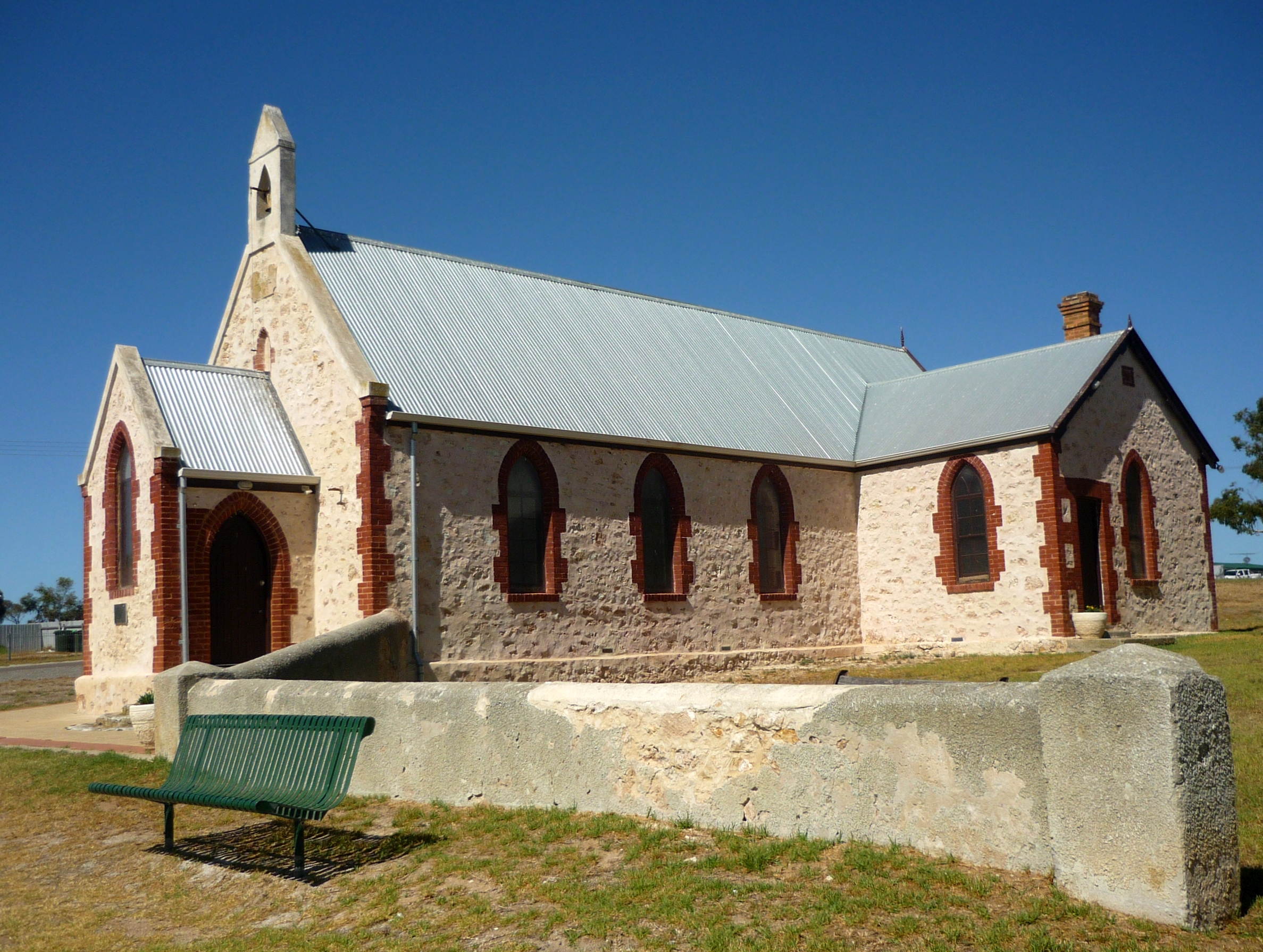 Photo of Raukkan Church at Raukkan, Coorong District Council, South Australia.